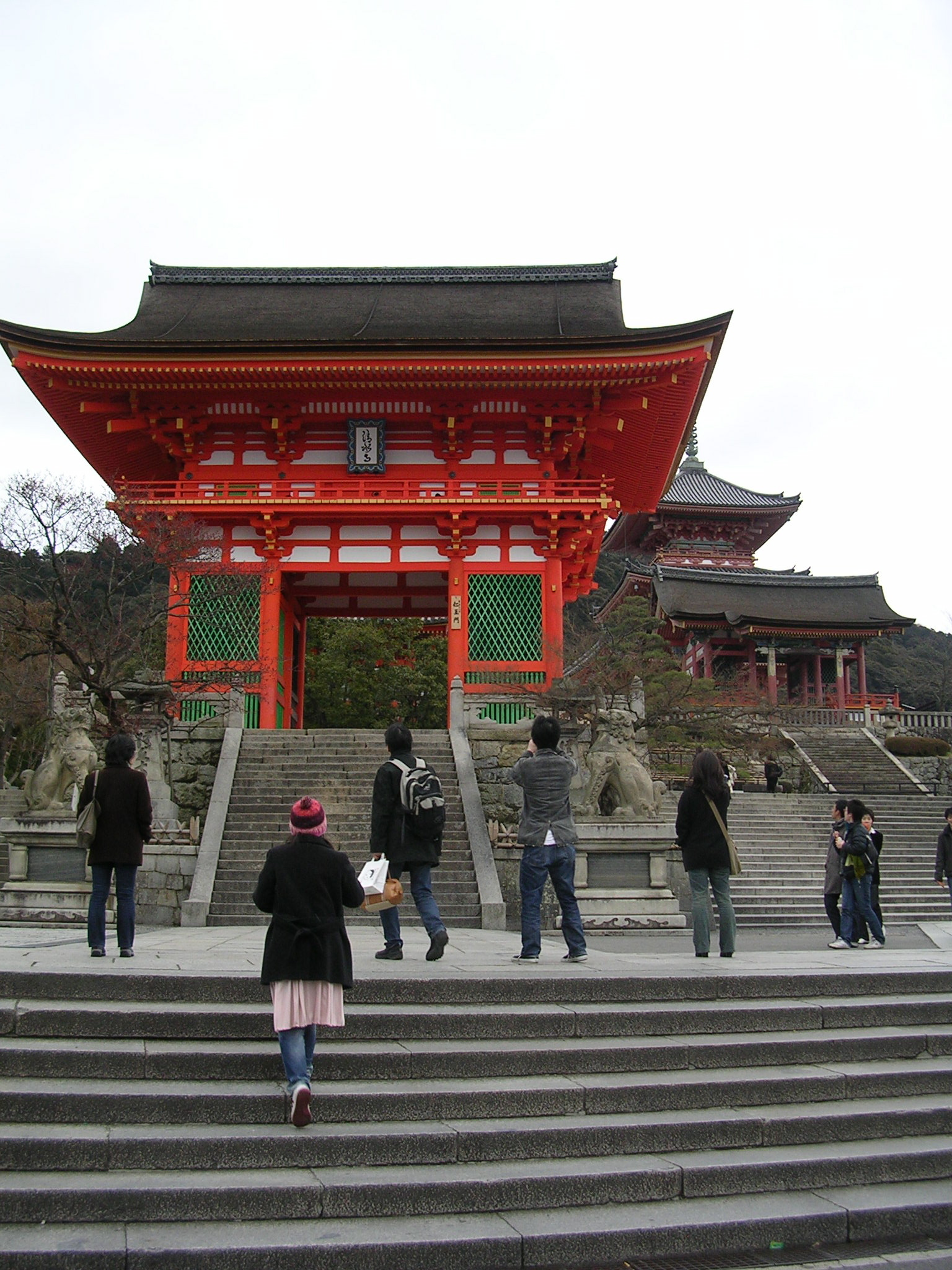 Kyoto, ancient imperial capital of Japan